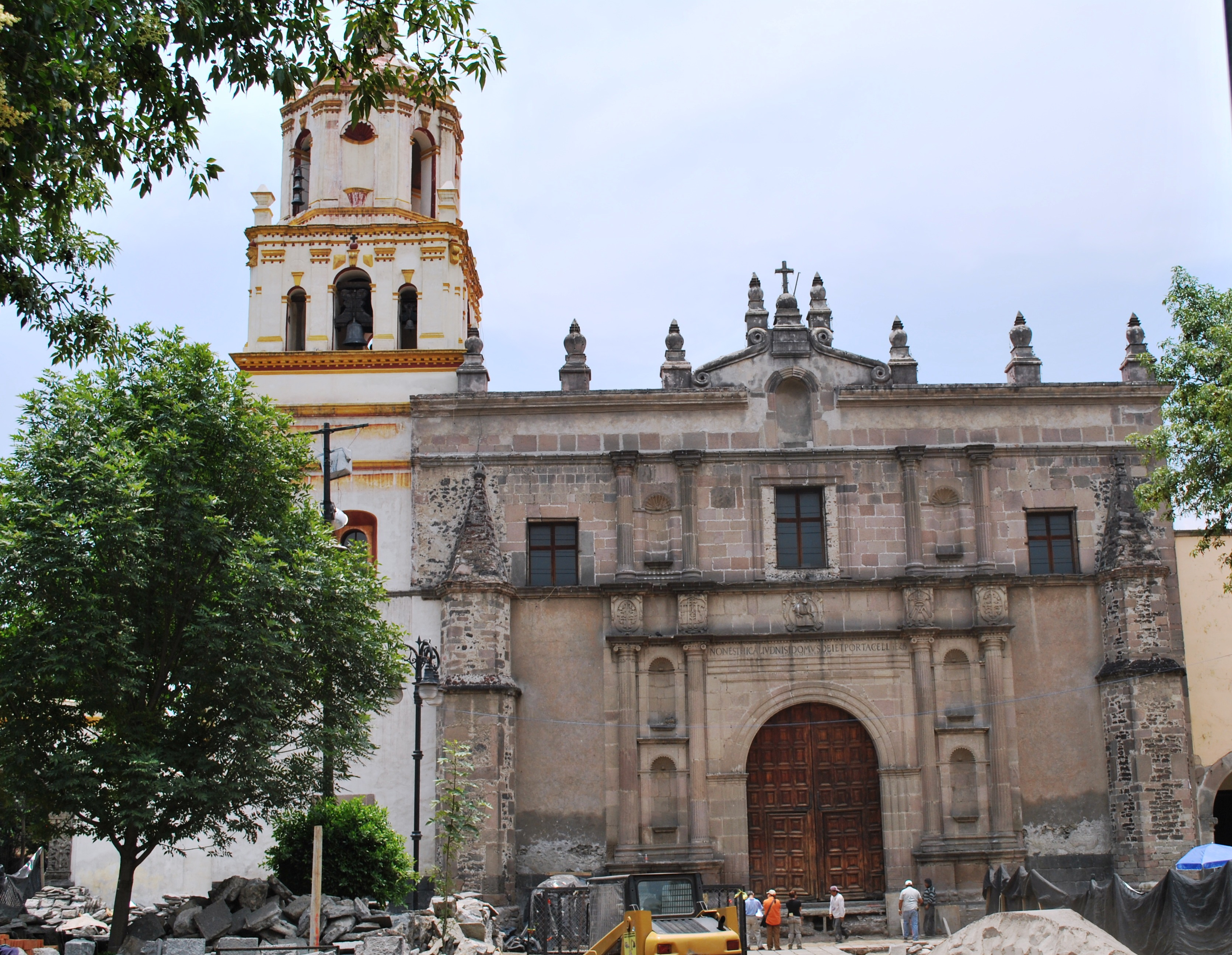 Facade of the Parish of San Juan Bautista located in the heart of the Coyoacan borough in Mexico City